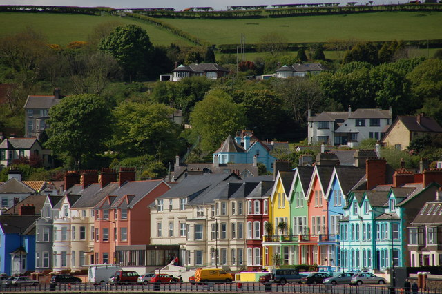 Marine Parade, Whitehead See 172661. At one time it looked as if Whitehead might become a dormitory for students at the Jordanstown campus of the University of Ulster. It did not. Marine Parade overlooks the sea and has become a fashionable place to live.